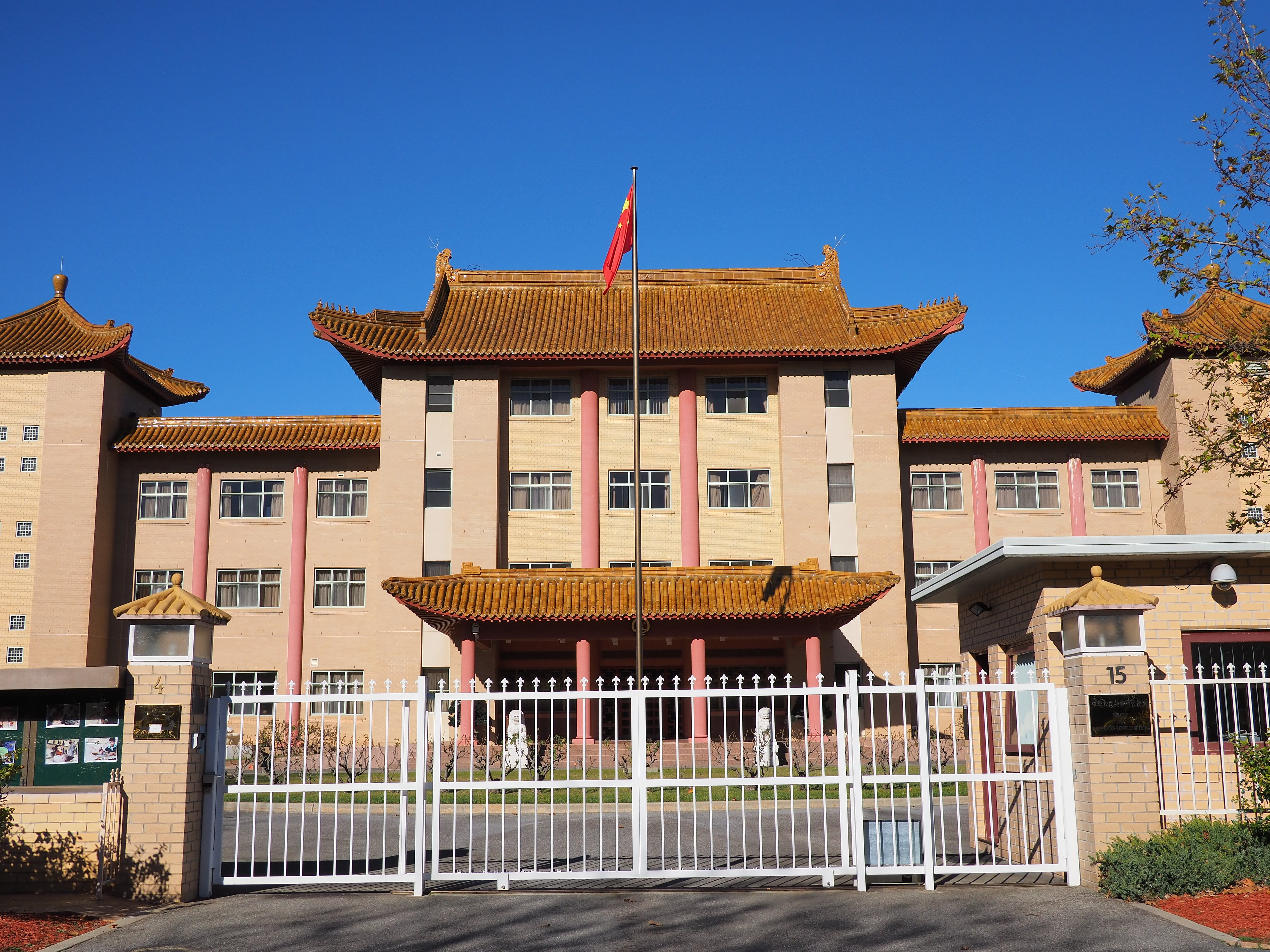 The main entrance to the Chinese Embassy in Canberra